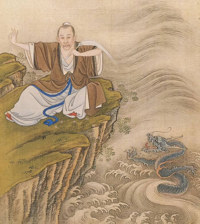 The Emperor depicted as a Taoist magician. From Album of the Yongzheng Emperor in Costumes, by anonymous court artists, Yongzheng period (1723—35). One of 14 album leaves, colour on silk. The Palace Museum, Beijing.